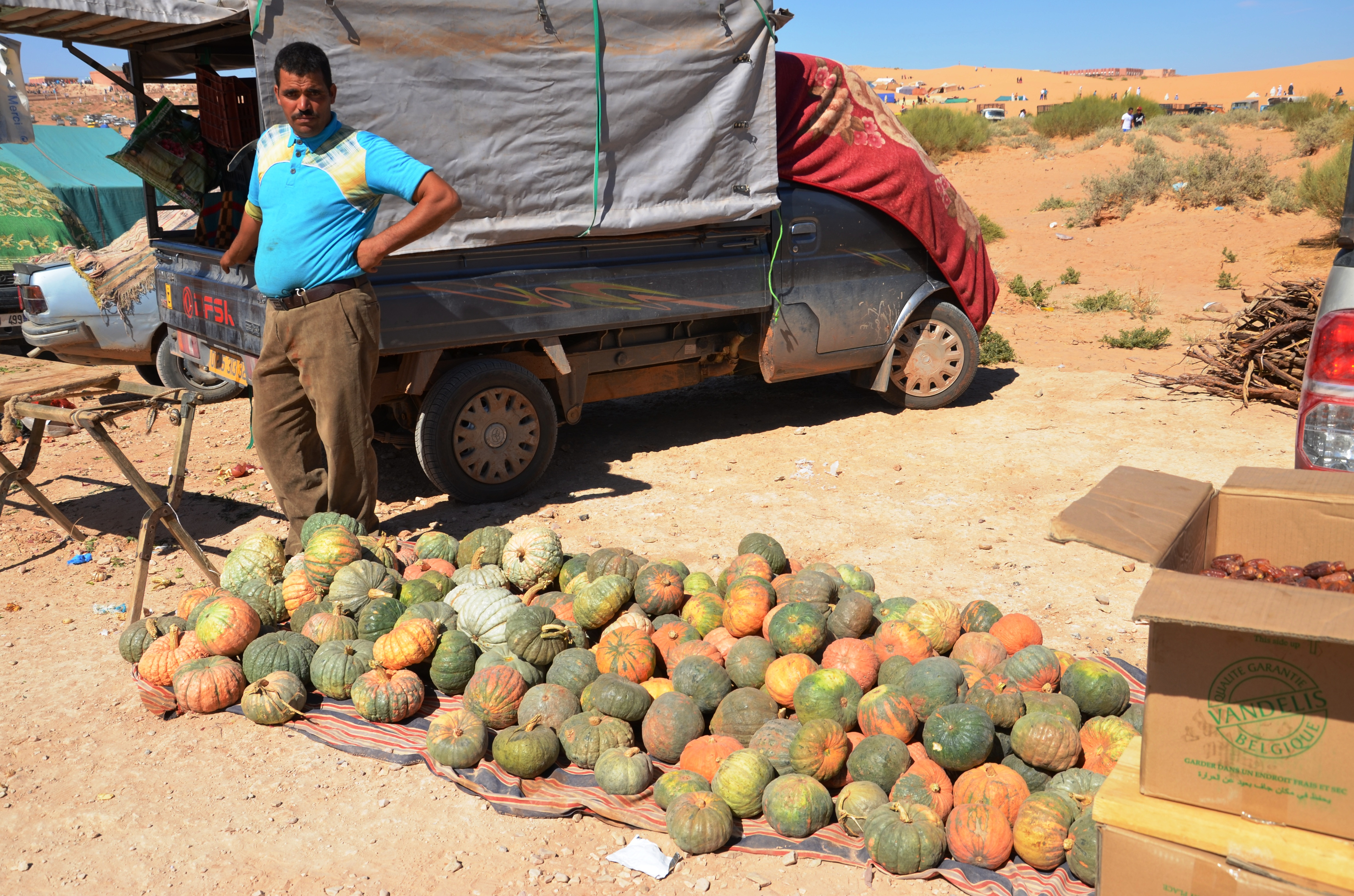 This is an image with the theme "Africa on the Move or Transport" from: Algeria